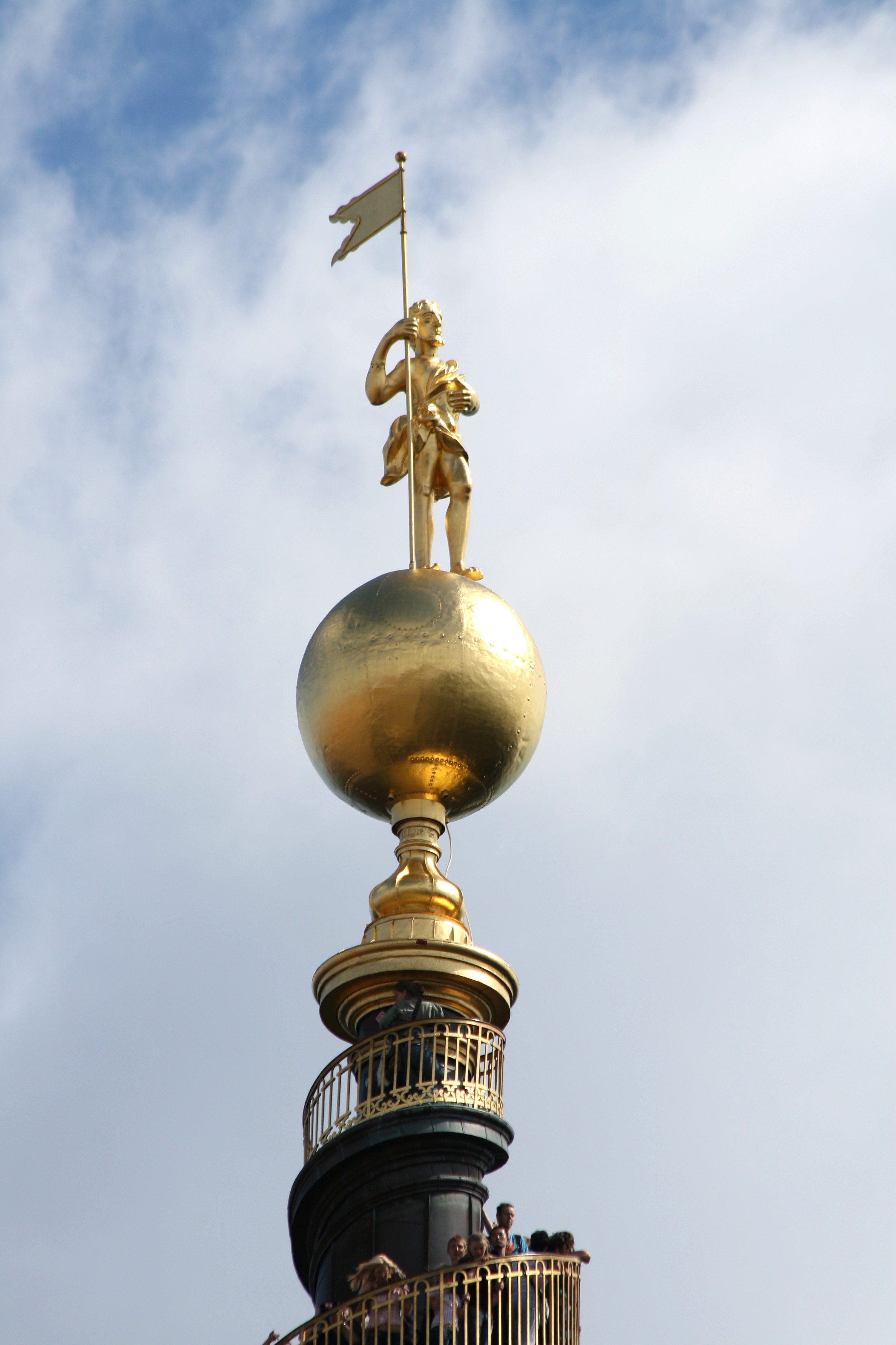 Vor Frelser Kirke (Church of Our Saviour), Copenhagen, Denmark. The saviour figure on top of the steeple.